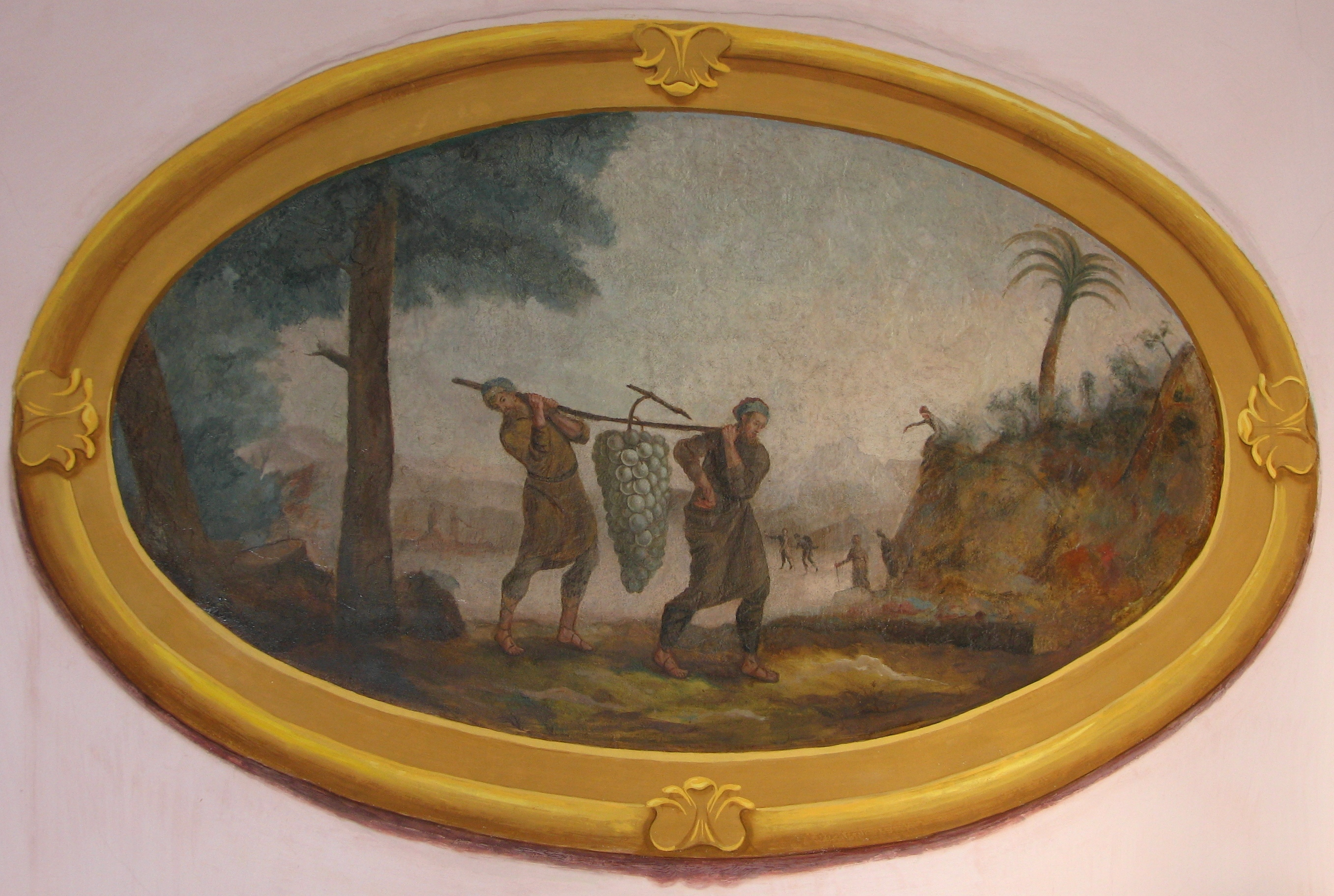 The fresco of the Promised Land from the sanctuary of the Greek Catholic Cathedral of Hajdúdorog, Hungary. It was painted in the end of the 18th century.